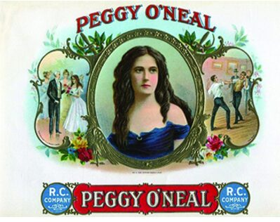 Cigar box image of Peggy O'Neal, in US politics 1830 Other information no